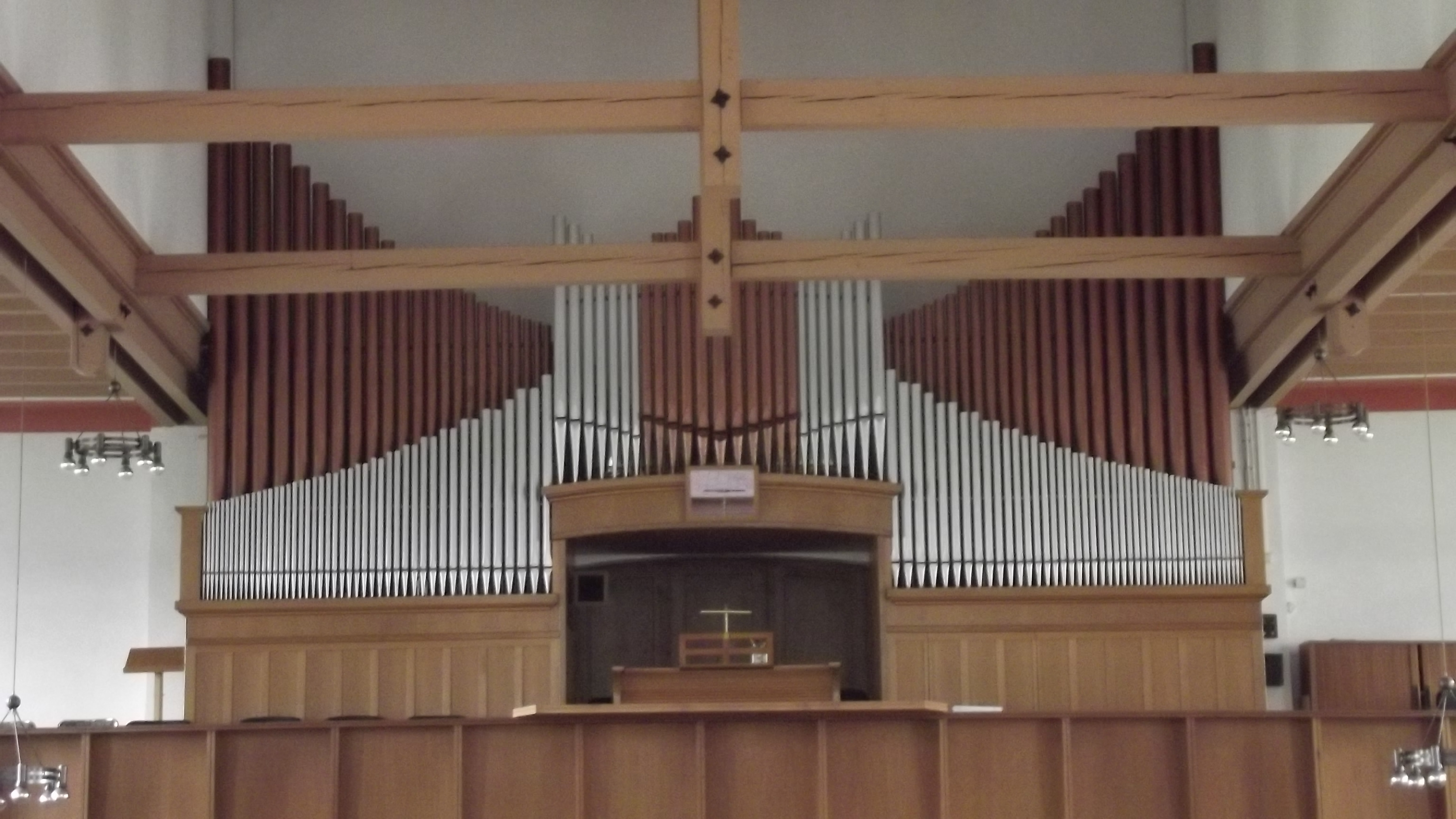 Interior of the roman catholic church in Bilsdorf, Saarland